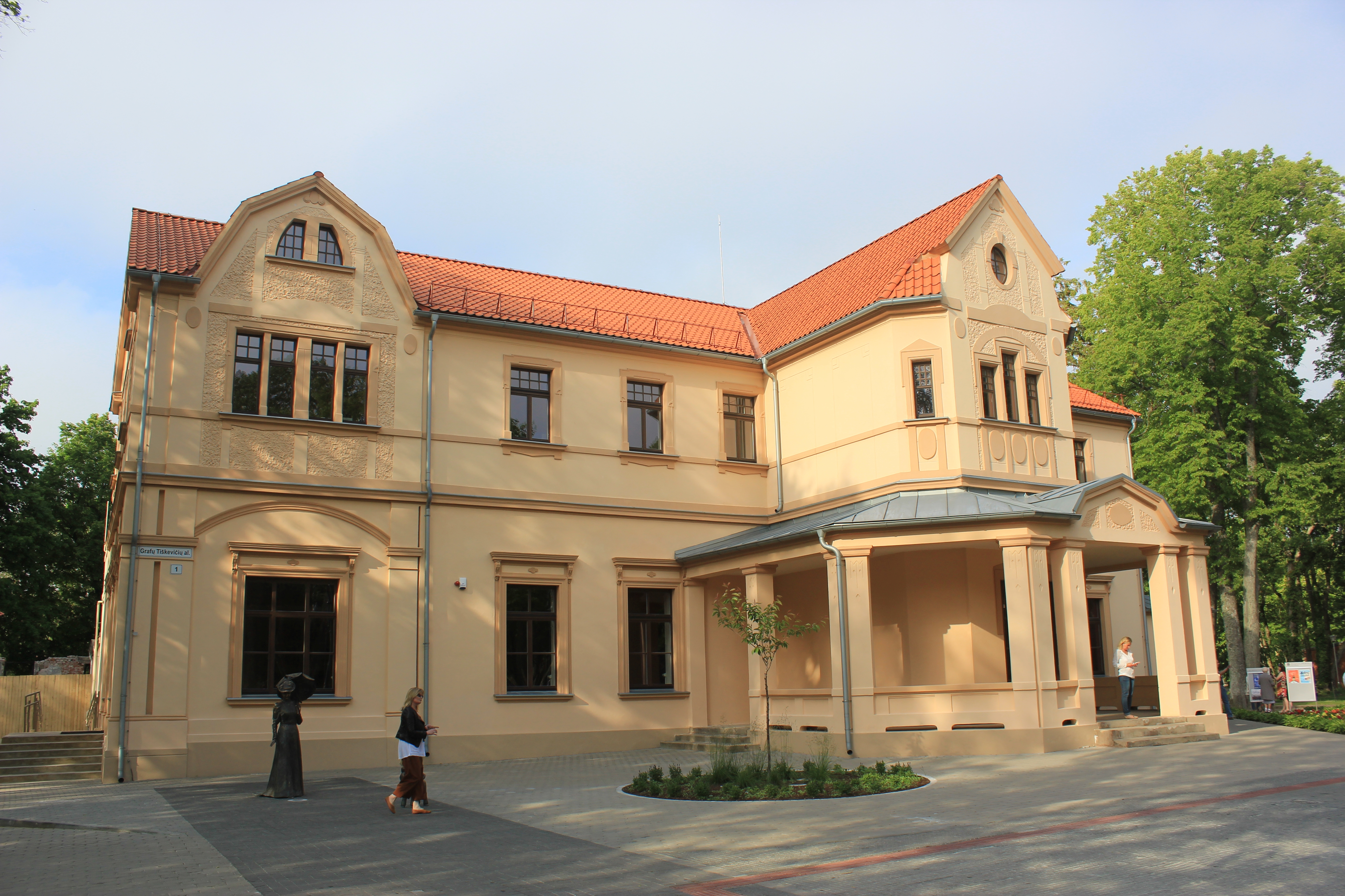 Palanga - resort house